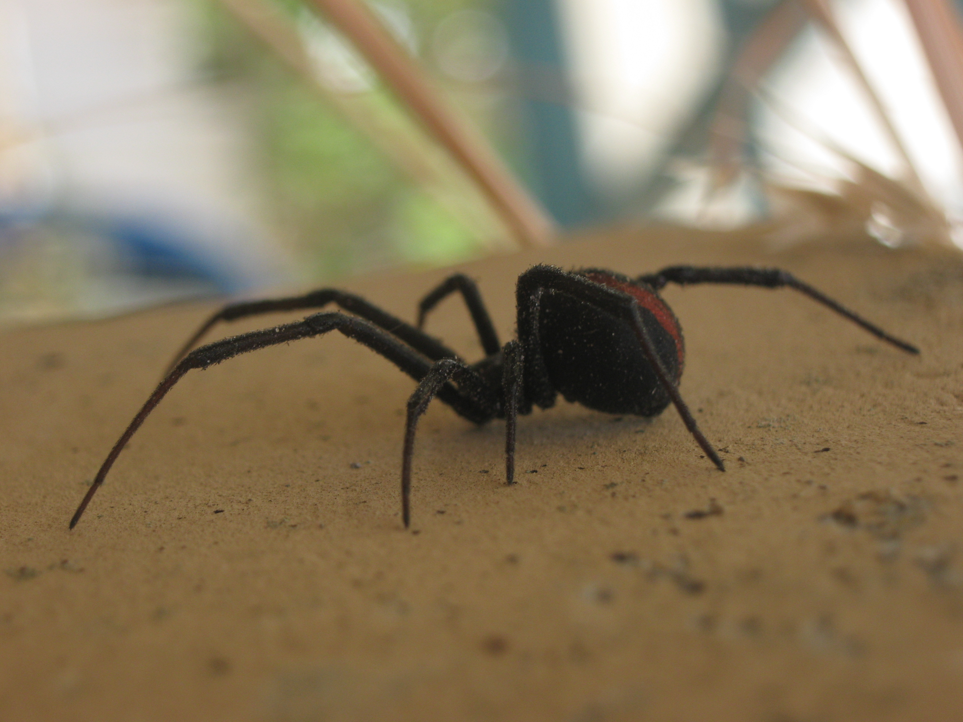 Redback Spider from the side on a gardenwall